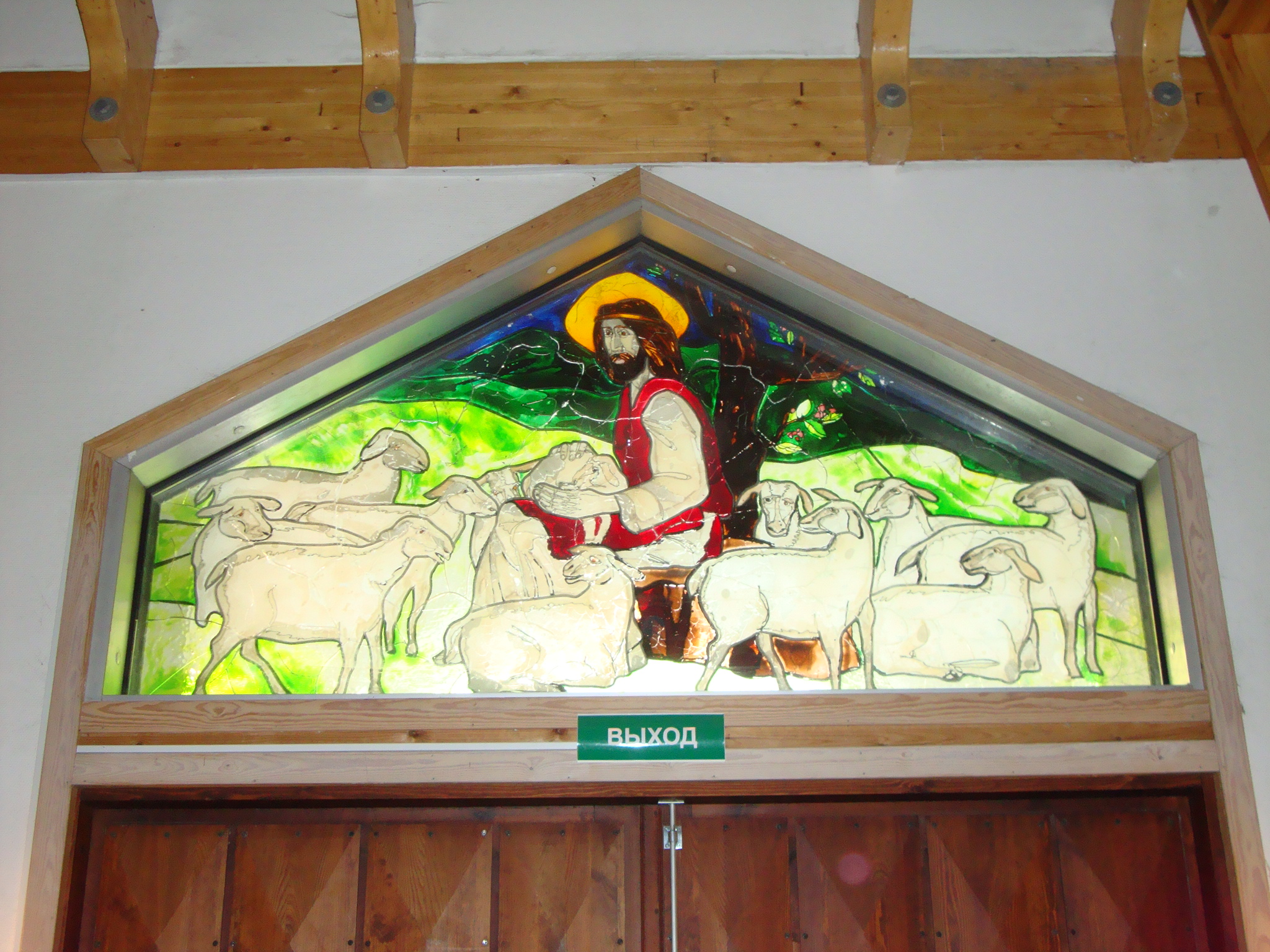 Stained glass in St Jeorge church in Kolbino (Leningrad Oblast, Vsevolozhsky District).